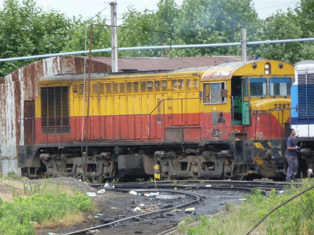 5287 Locomotive in Buenos Aires, Argentina